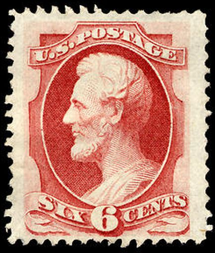 US Postage stamp, National Bank Note: Lincoln, Issue of 1870, 6c